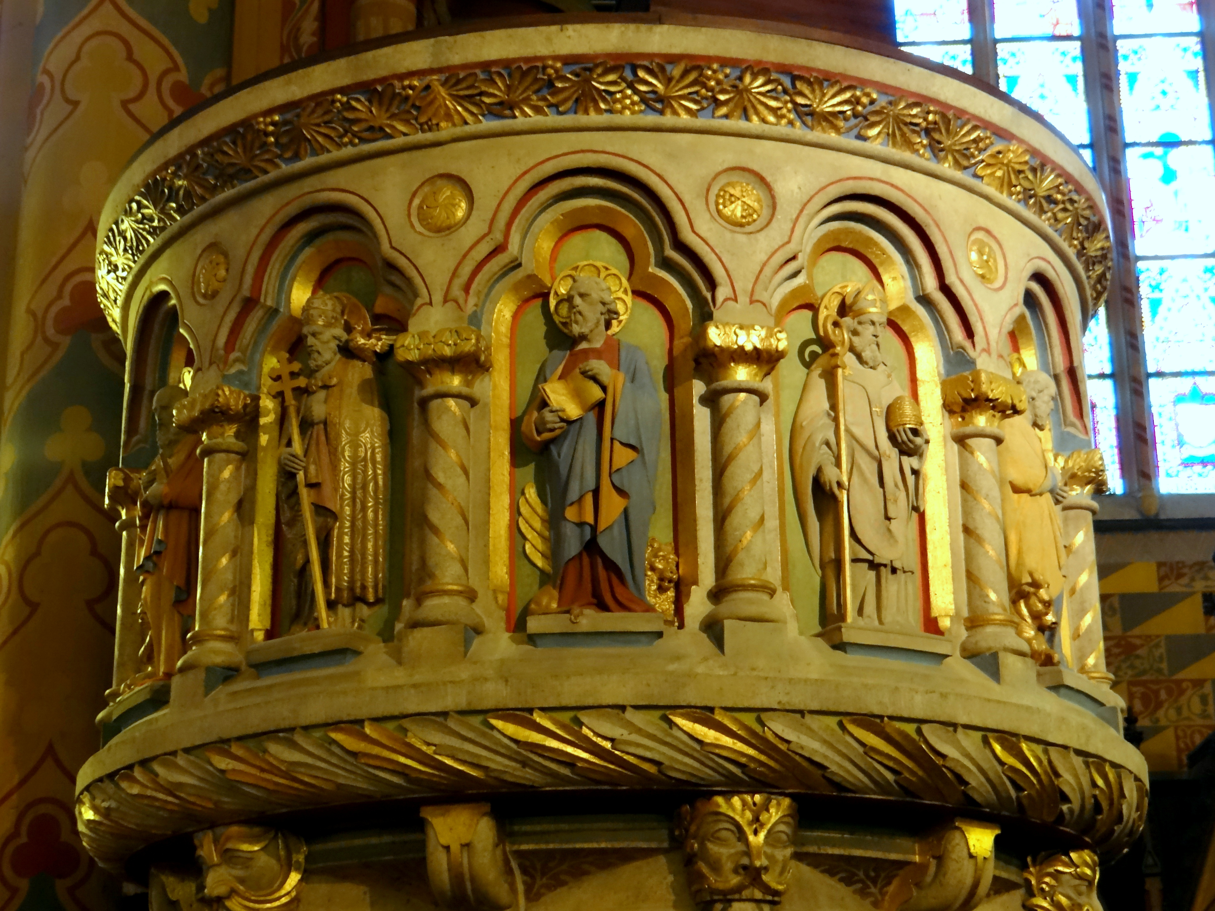 Pulpit of Matthias Church in Budapest, detail.